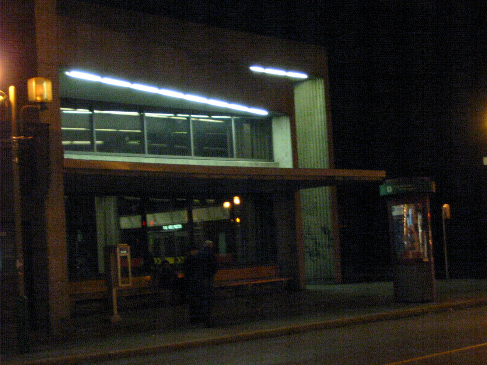 De L'Église Montreal Metro Station 中文（香港）: 蒙特利爾地鐵教堂站